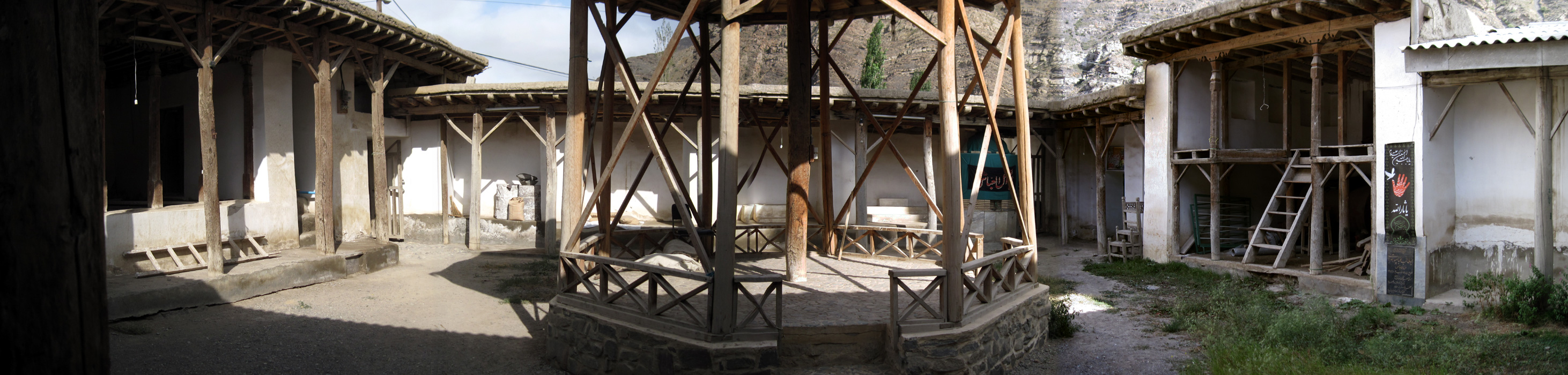 Iran - Mazandaran Province- Baladeh - Old Tekie